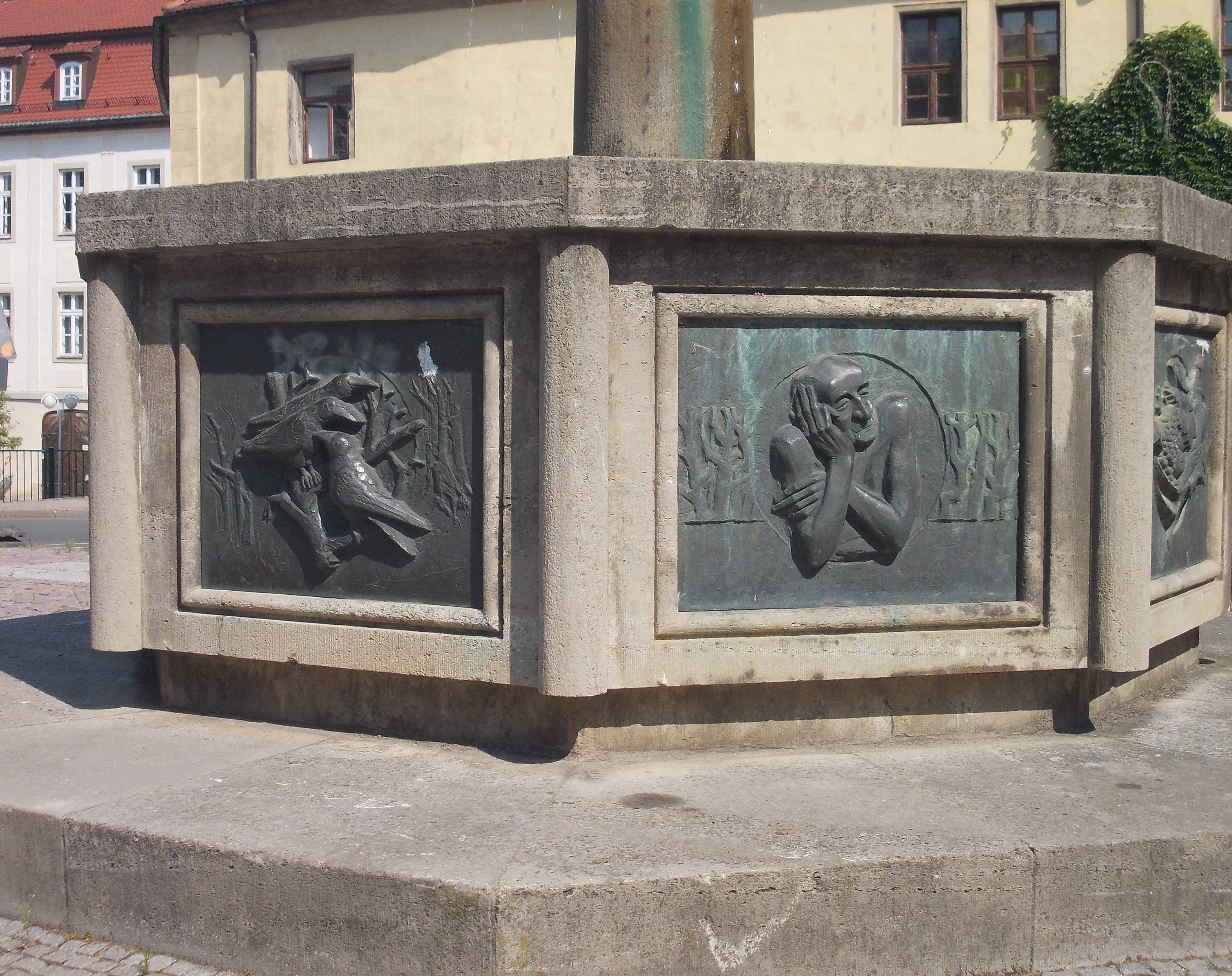 Detail from the Fountain of the Four Seasons in Merseburg (district: Saalekreis, Saxony-Anhalt)